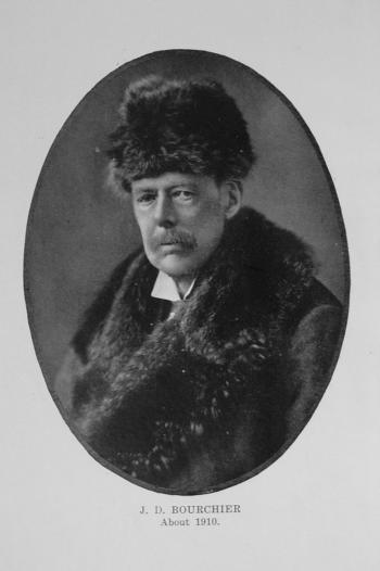 Portrait of James David Bourchier, about 1910